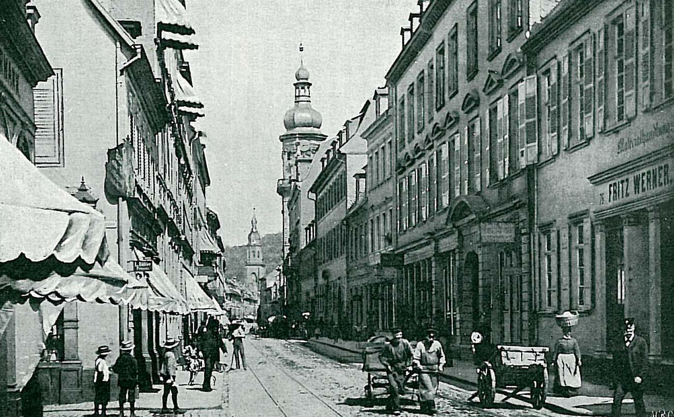 historical view of Heidelberg